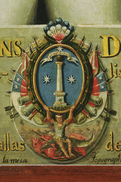 Coat of arms of Chile during the years 1819 to 1834. Extracted from paint of artist José Gil de Castro.